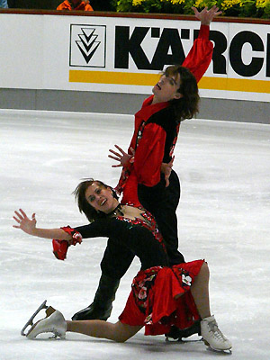 Alla Beknazarova and Vladimir Zuev at the 2007 Nebelhorn Trophy.